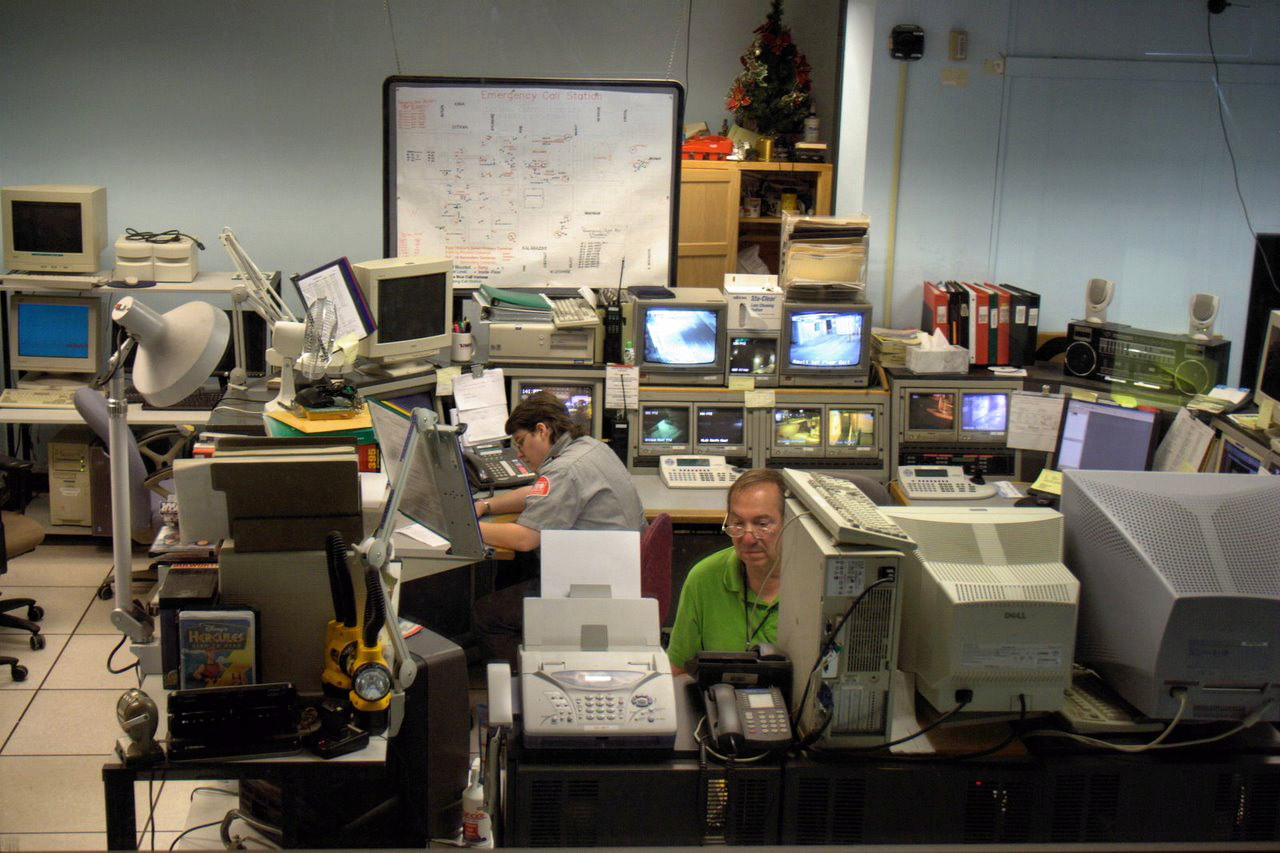 A Photograph of a Surveillance Room at a State of Michigan building taken at night on June 21, 2006, from outside of the building. The photo is intended to invoke an irony; security staff who monitor surveillance cameras, being surveilled surreptitiously. The photo is taken by the submitter.